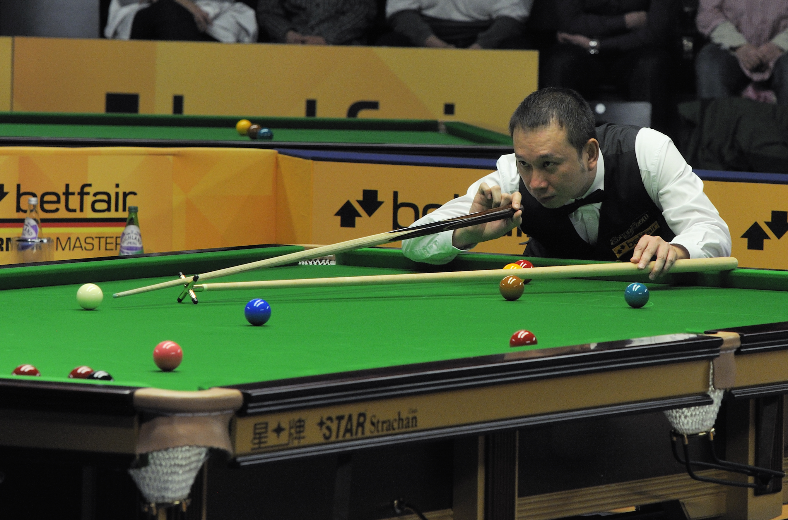 Picture taken in Berlin during the Snooker German Masters in 2013. James Wattana.